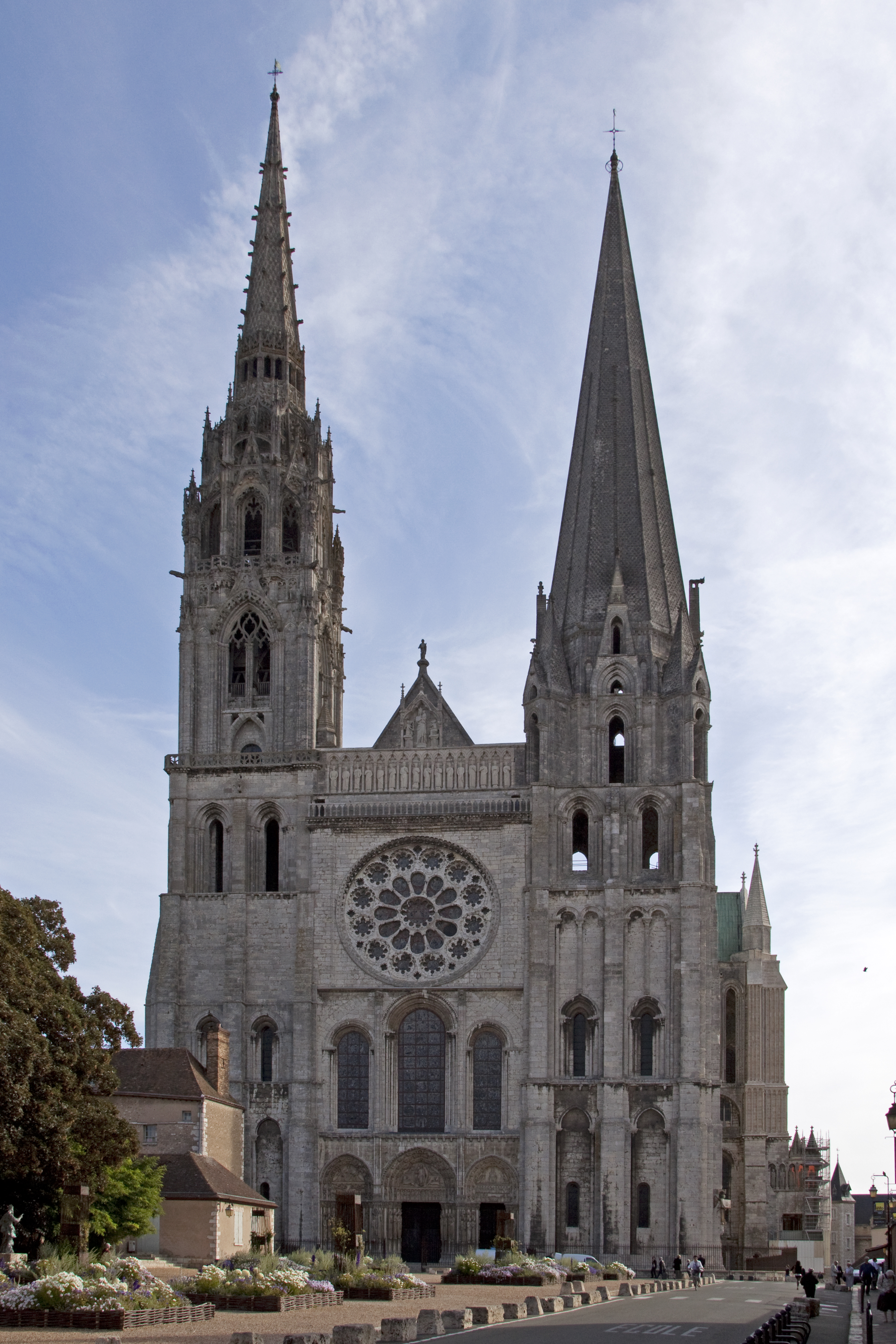 This huge cathedral dominates the small town.